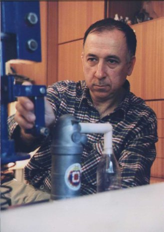 Veljko Milković,inventor